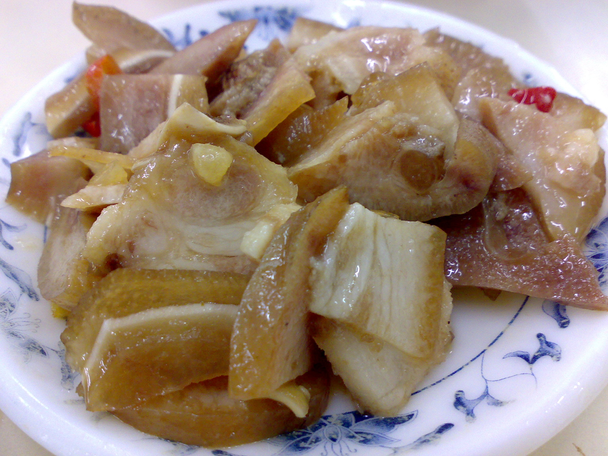 Marinated pork ears